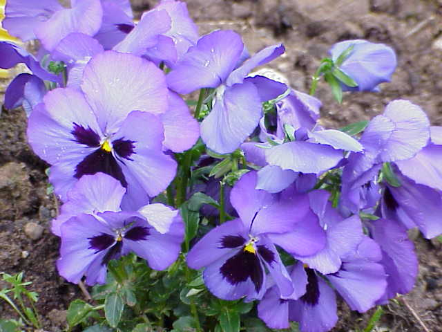 Species: Viola tricolor Family: Violaceae Image No. 12